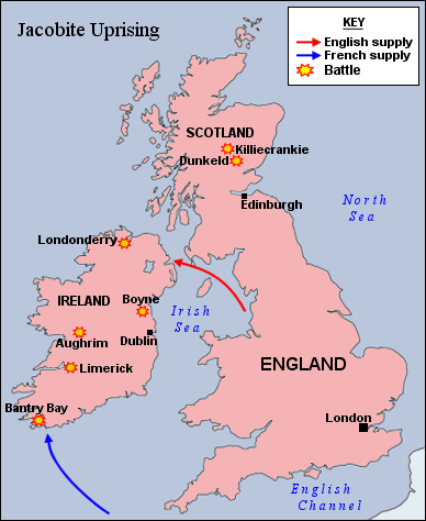 Map showing major actions of the Jacobite uprising in the early stages of the Nine Years' War (1688-97)